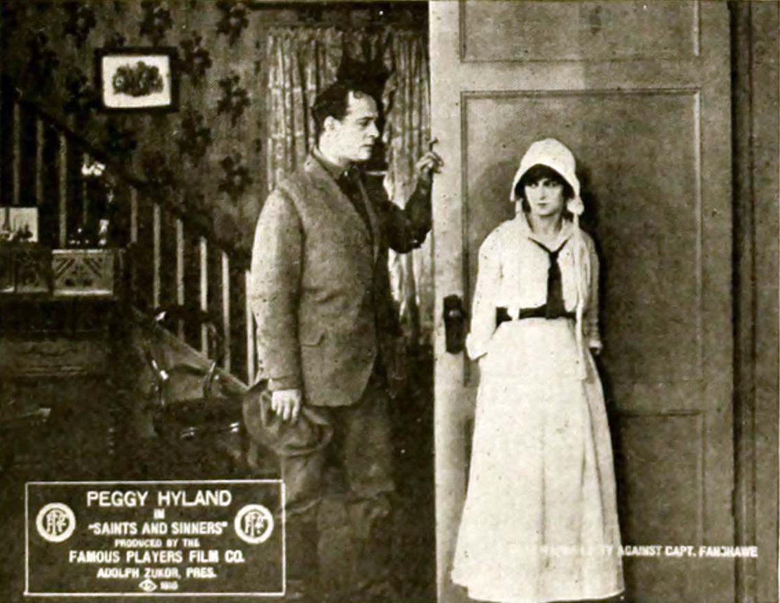 Illustration for a review in The Moving Picture World for the American film Saints and Sinners (1916).